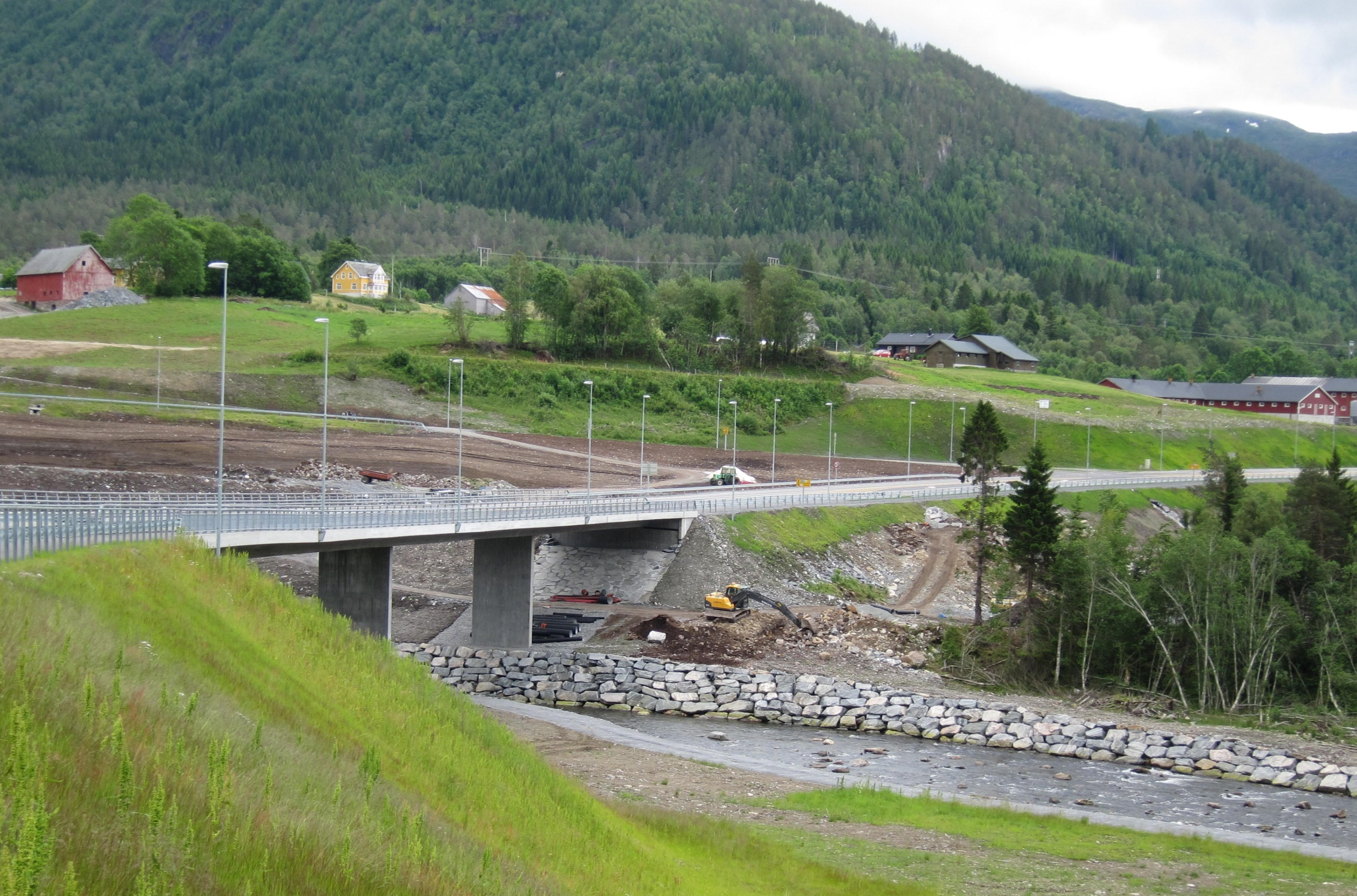 Storelva bridge road E39, junction with county road 60, Hornindal, Norway